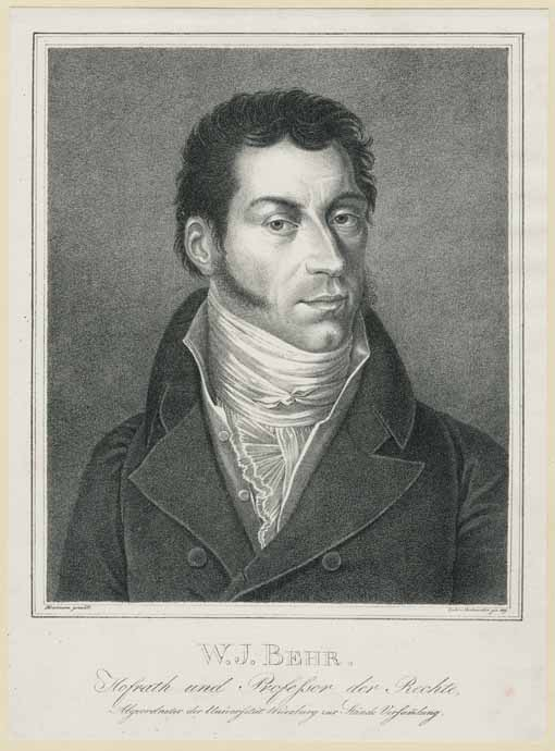 The german politician Michael Wilhelm Joseph Behr (1775-1851)